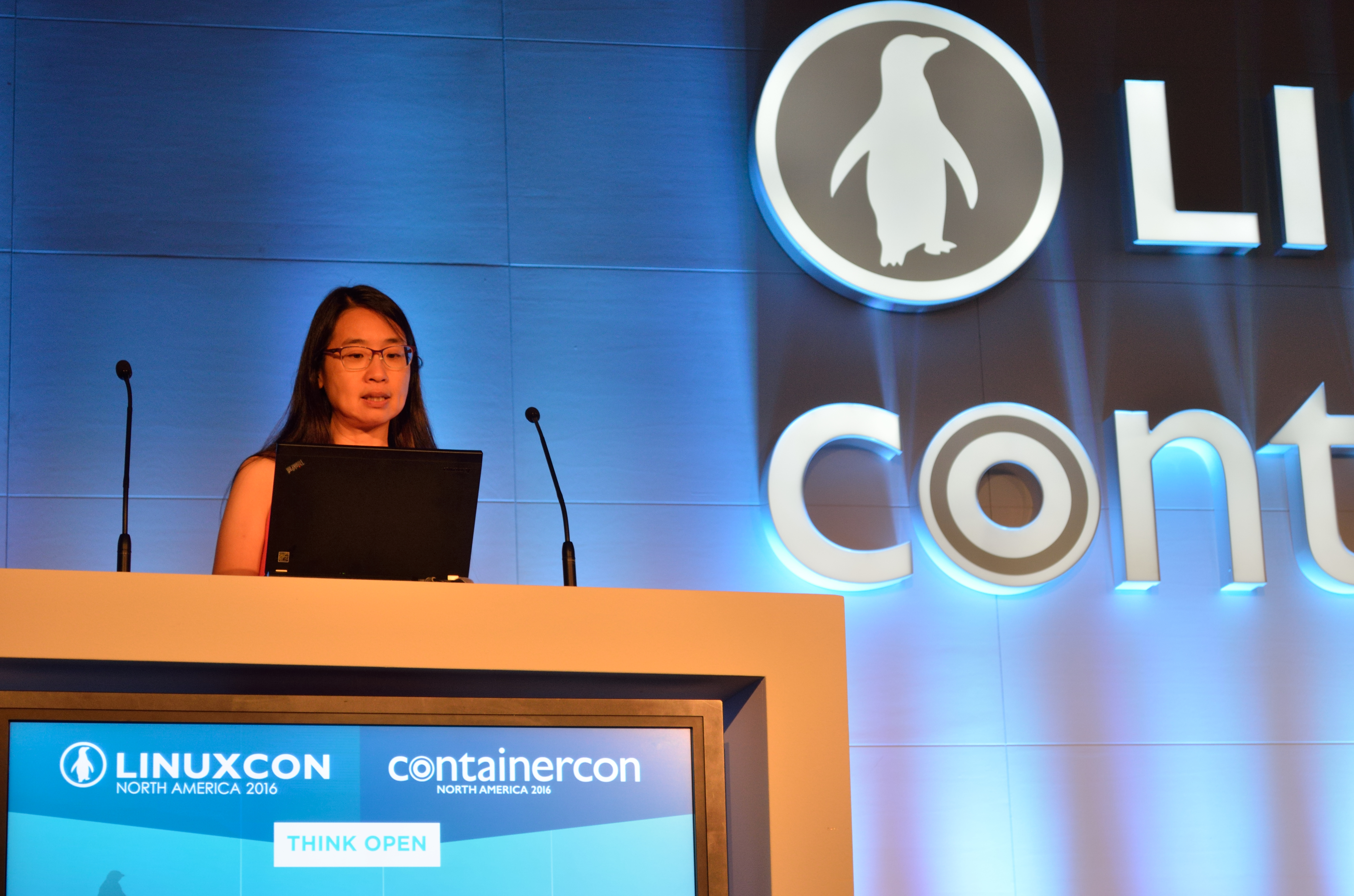 Donna Dillenberger at LinuxCon North America 2016.